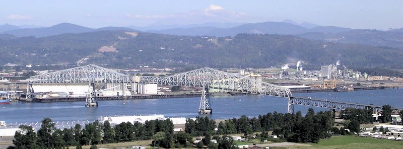 The Lewis and Clark Bridge in Longview, Washington. Viewed from the northwest along U.S. Route 30 in Oregon. Taken by Cacophony on September 7, 2004.